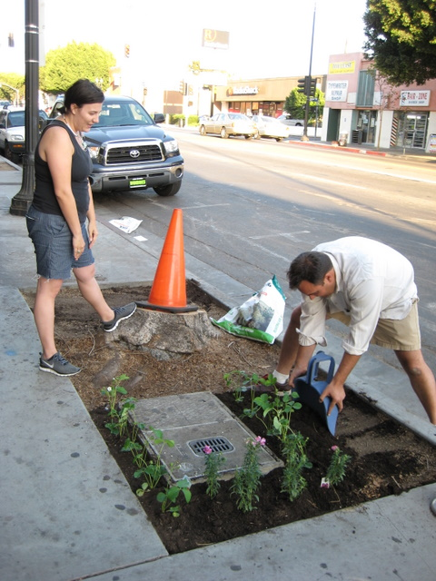 Guerilla Gardening in front of Flying Pigeon LA